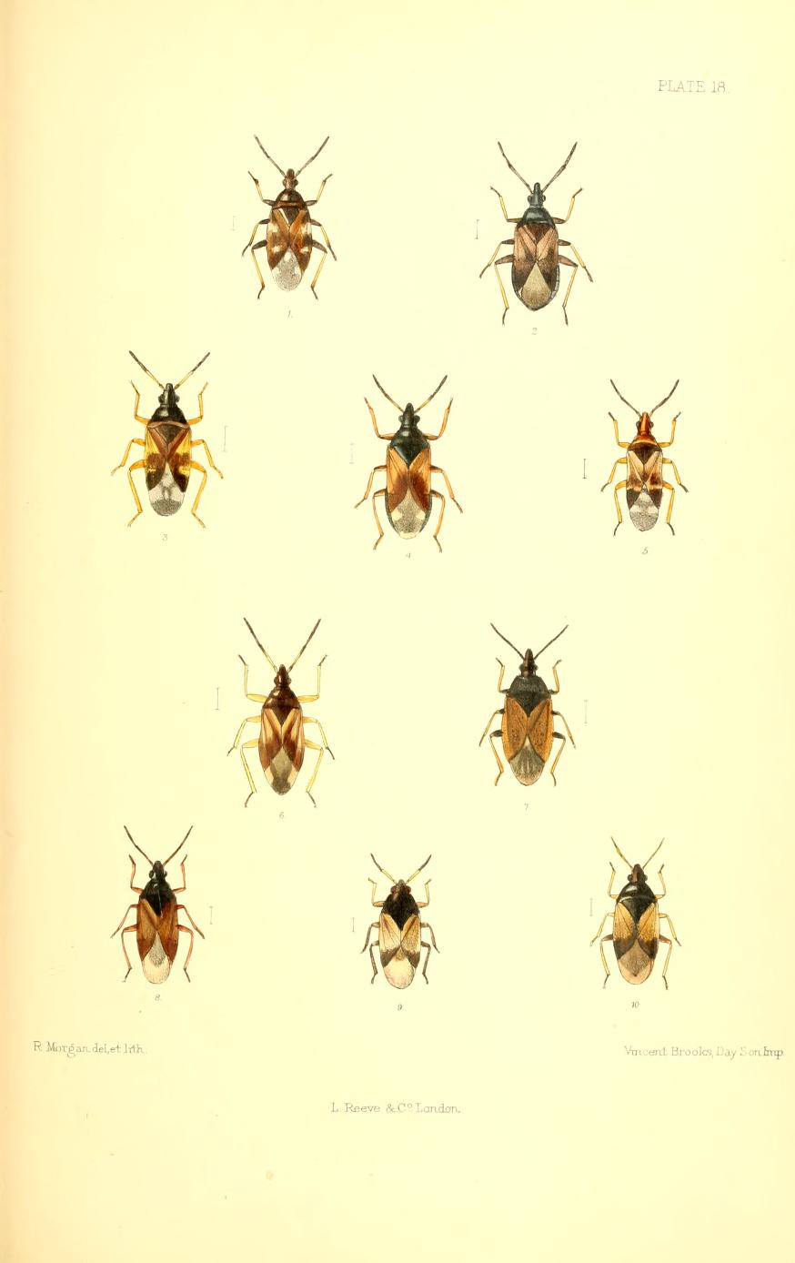 Edward Saunders, 1892 The Hemiptera Heteroptera of the British Islands : a descriptive account of the families, genera, and species indigenous to Great Britain and Ireland : with notes as to localities, habitats Plate 18 text 1 Temnostithus pusillus H S = Temnostethus pusillus (Herrich-Schäffer, 1835) 2 Elatophilus nigricornis Zett =Elatophilus (Elatophilus) nigricornis (Zetterstedt, 1838) 3 Anthochoris nemoralis Fab = Anthocoris nemoralis (Fabricius, 1794) 4 Anthochoris gallarum-ulmi De Geer = Anthocoris gallarumulmi (De Geer 1773) 5 Anthochoris visci Douglas = Anthocoris visci Douglas, 1889 6 Anthochoris sylvestris Linn = Anthocoris nemorum (Linnaeus, 1761) 7 Tetraphleps vittata Fieb = Tetraphleps bicuspis (Herrich-Schäffer, 1835) 8 Acompocoris alpinus Reut = Acompocoris alpinus Reuter, 1875 9 Triphleps nigra Wolff male =Orius niger (Wolff, 1811) 10 Triphleps majuscula Reut = Orius (Heterorius) majusculus (Reuter, 1879)